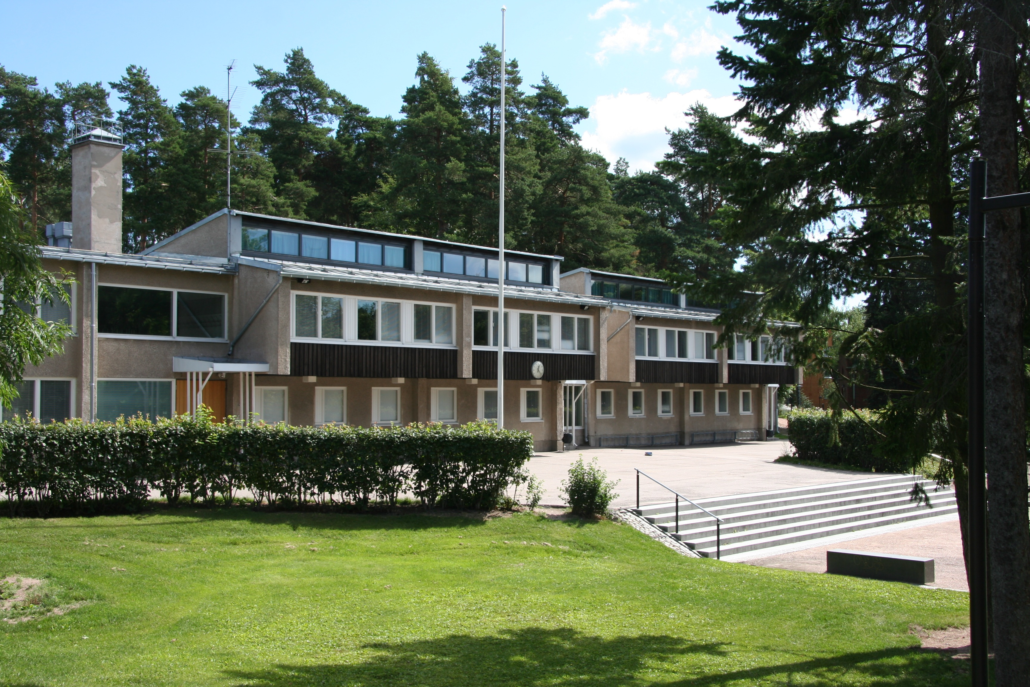 Käpylä School in Helsinki, Finland